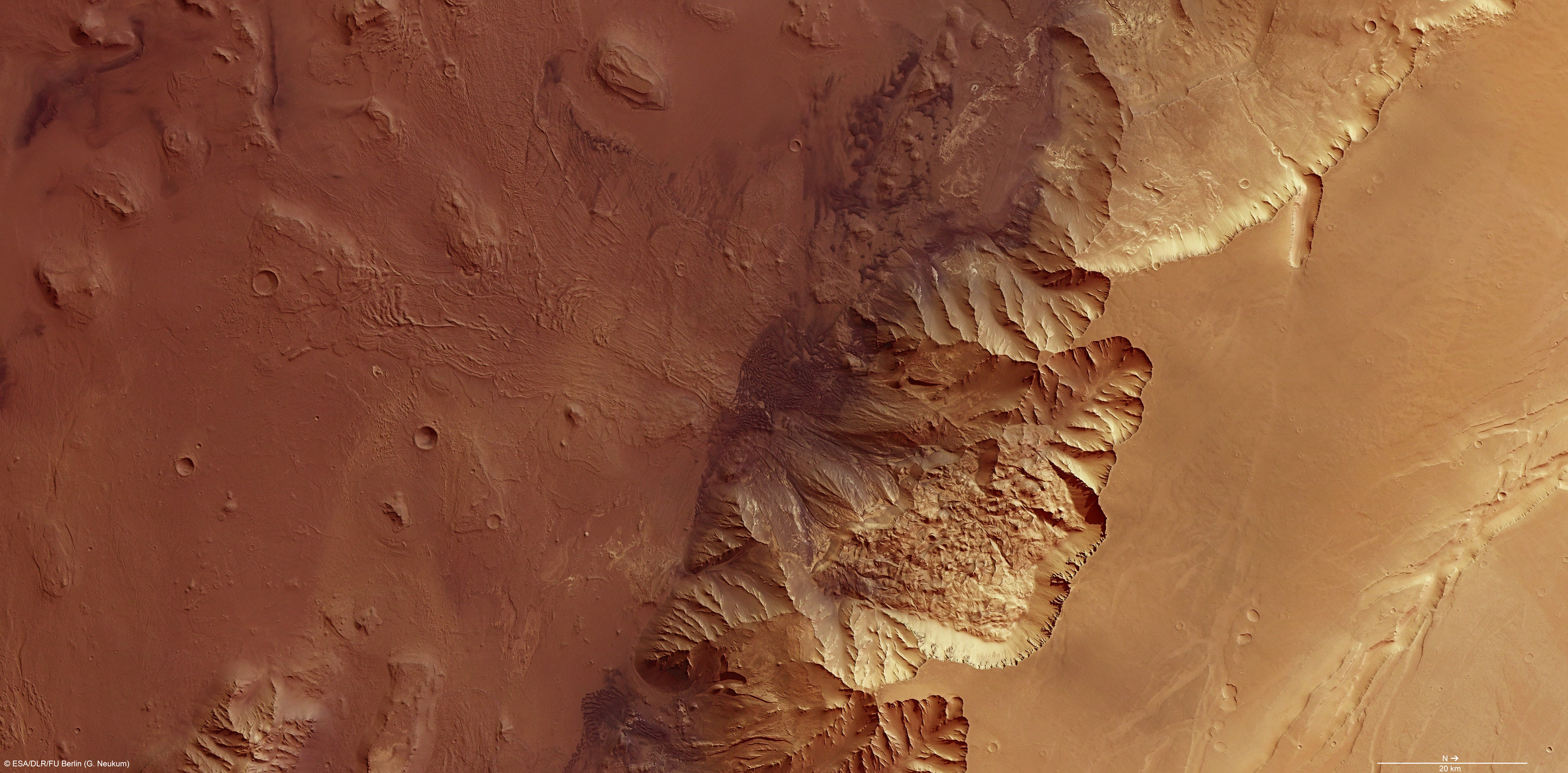 Melas Chasma on Mars imaged by the HRSC instrument aboard Mars Express.